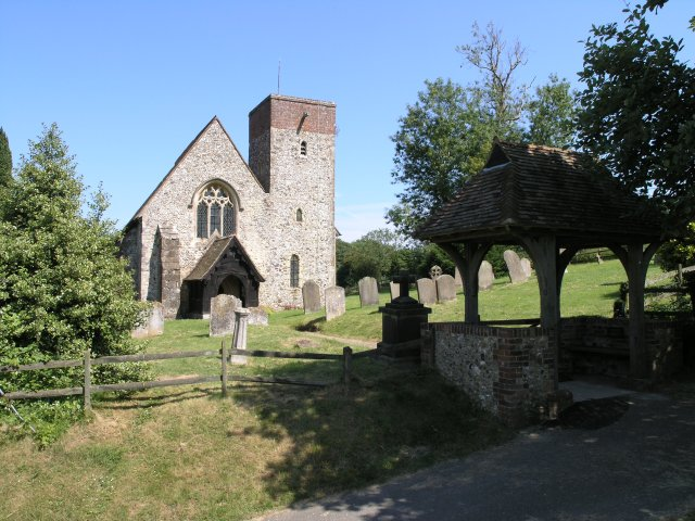 St. Mary The Virgin Church. Parish church for Hastingleigh, St. Mary The Virgin sits on the North Downs.